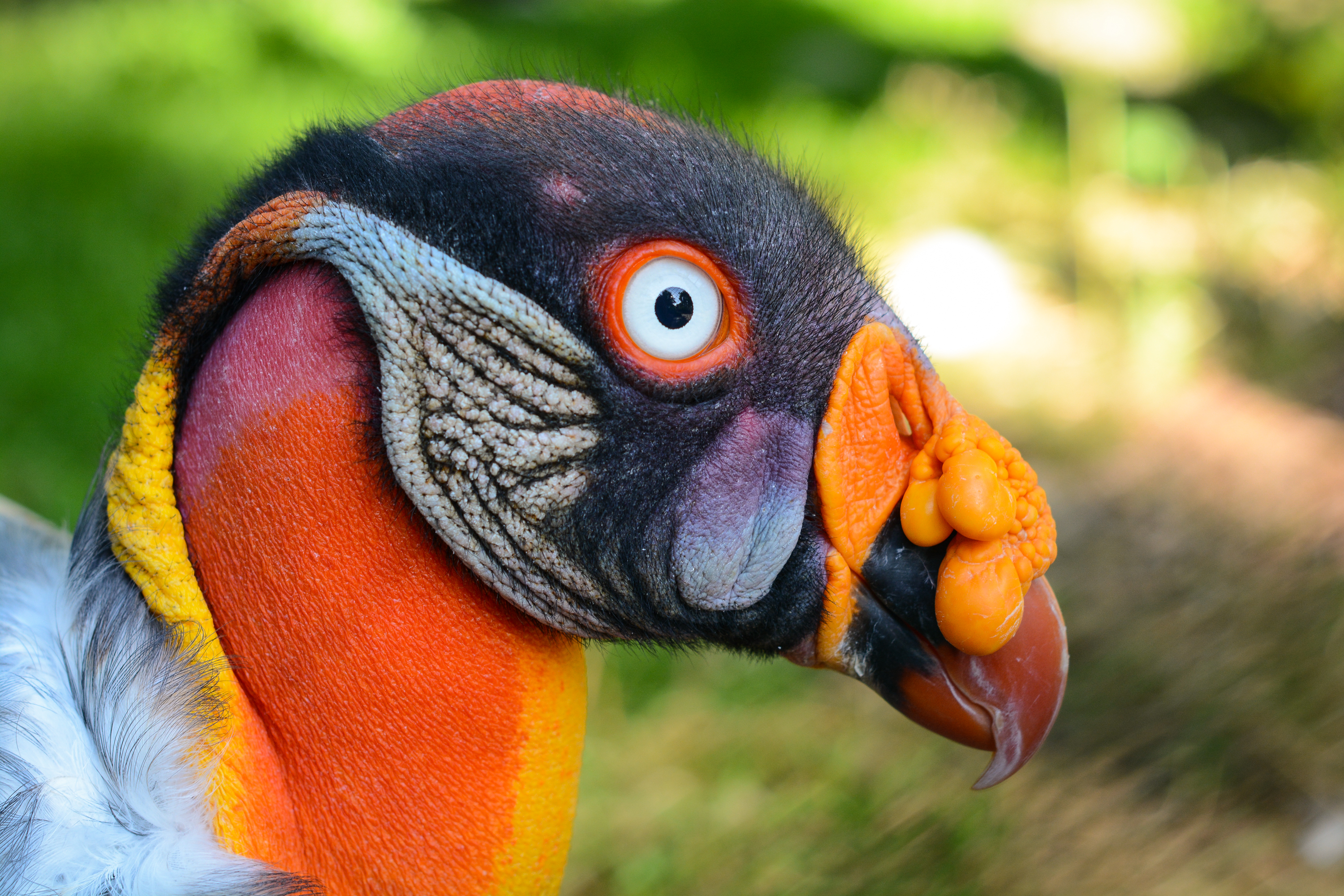 King Vulture (Sarcoramphus papa) at Weltvogelpark Walsrode (Walsrode Bird Park, Germany)